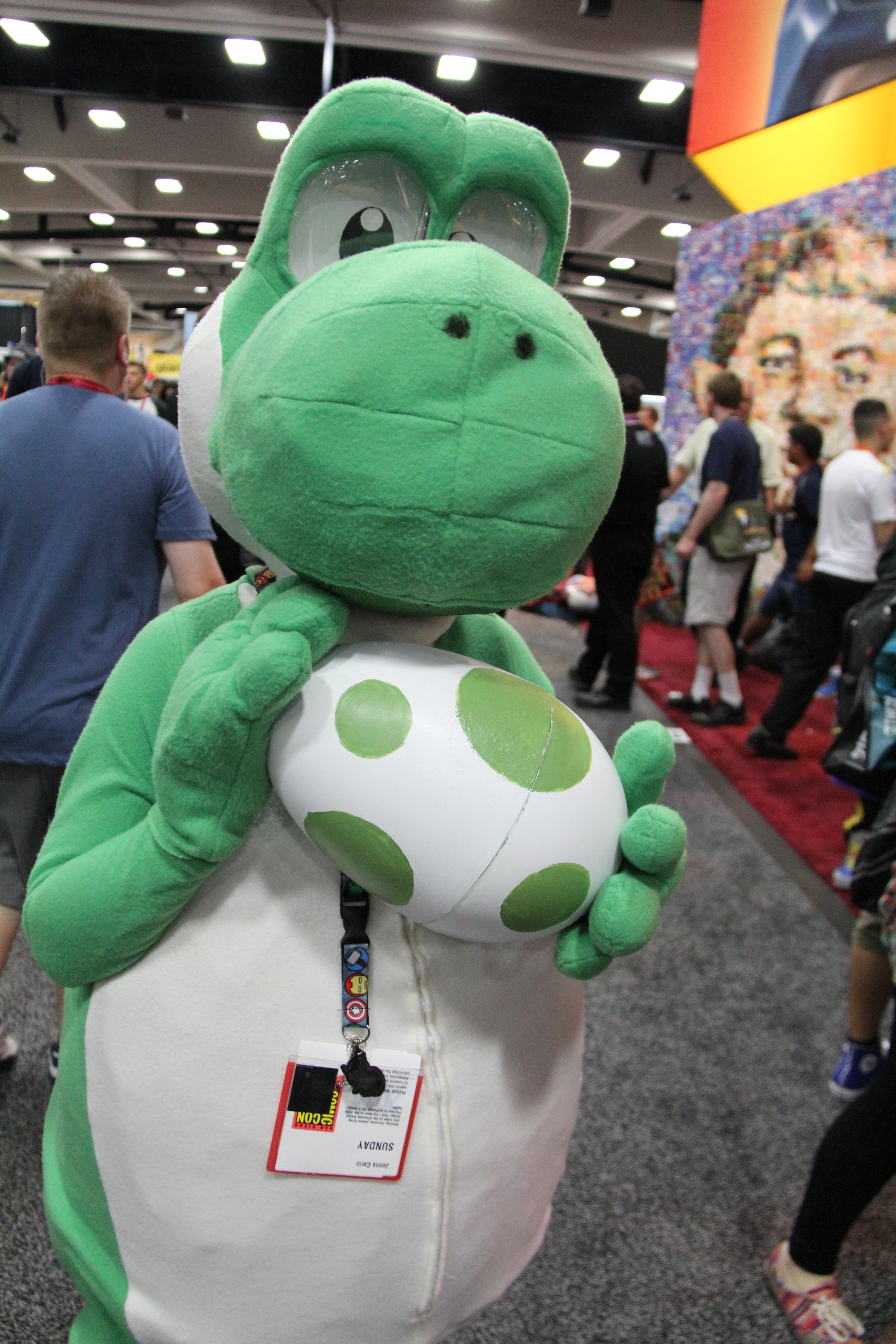 A Yoshi cosplay Cosplay at San Diego Comic-Con (SDCC 2014).